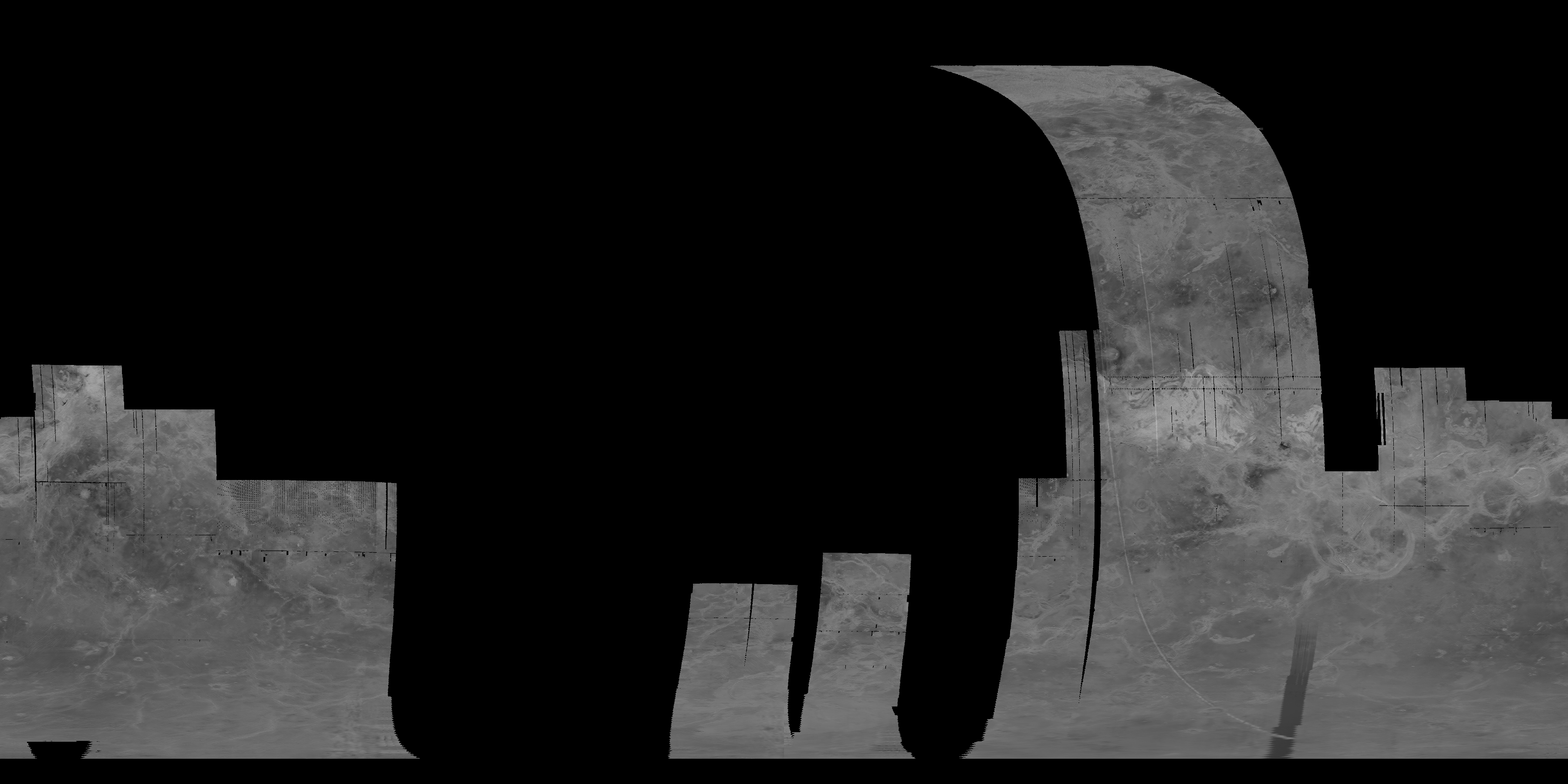 Map of Venus acquired during cycle 2 of the Magellan mission.